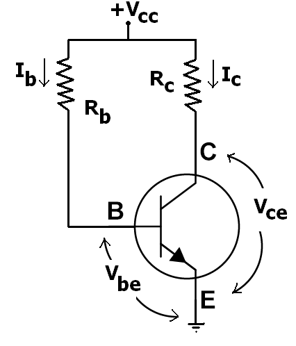 Simple circuit diagram of Fixed bias (Base bias) in Electronics.